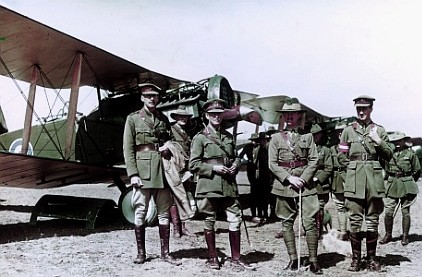 Palestine: Mejdel Jaffa Area, Mejdel. Lieutenant General Sir Harry Chauvel on a visit to inspect No 1 Squadron, Australian Flying Corps (AFC), in front of one of the squadron's Bristol F.2B fighter aircraft. The officers are from left to right: Lieutenant Colonel (Lt Col) F G Newton Lieutenant General Sir Harry Chauvel Lt Col R Williams, Commanding Officer No 1 Squadron Major Neate This image is a colour Paget Plate. The same image is available in black and white and is held at